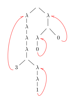 A term with links (version 2 without @)